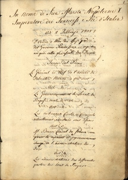 Decree of Napoleon from 1808